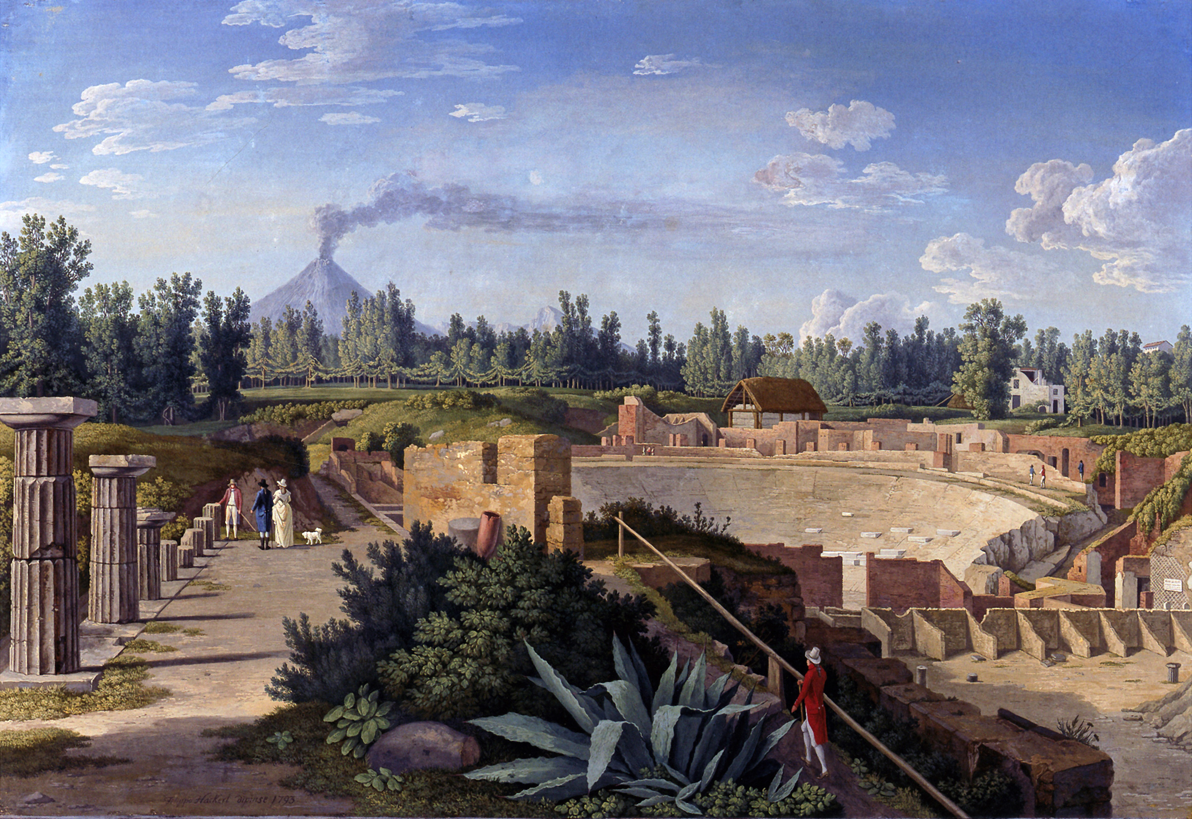 Jakob Philipp Hackert, Blick auf das große Theater von Pompeji, 1793, Gouache über Feder in Braun und Grau, 587 x 850 cm, Klassik Stiftung Weimar, Graphische Sammlungen.